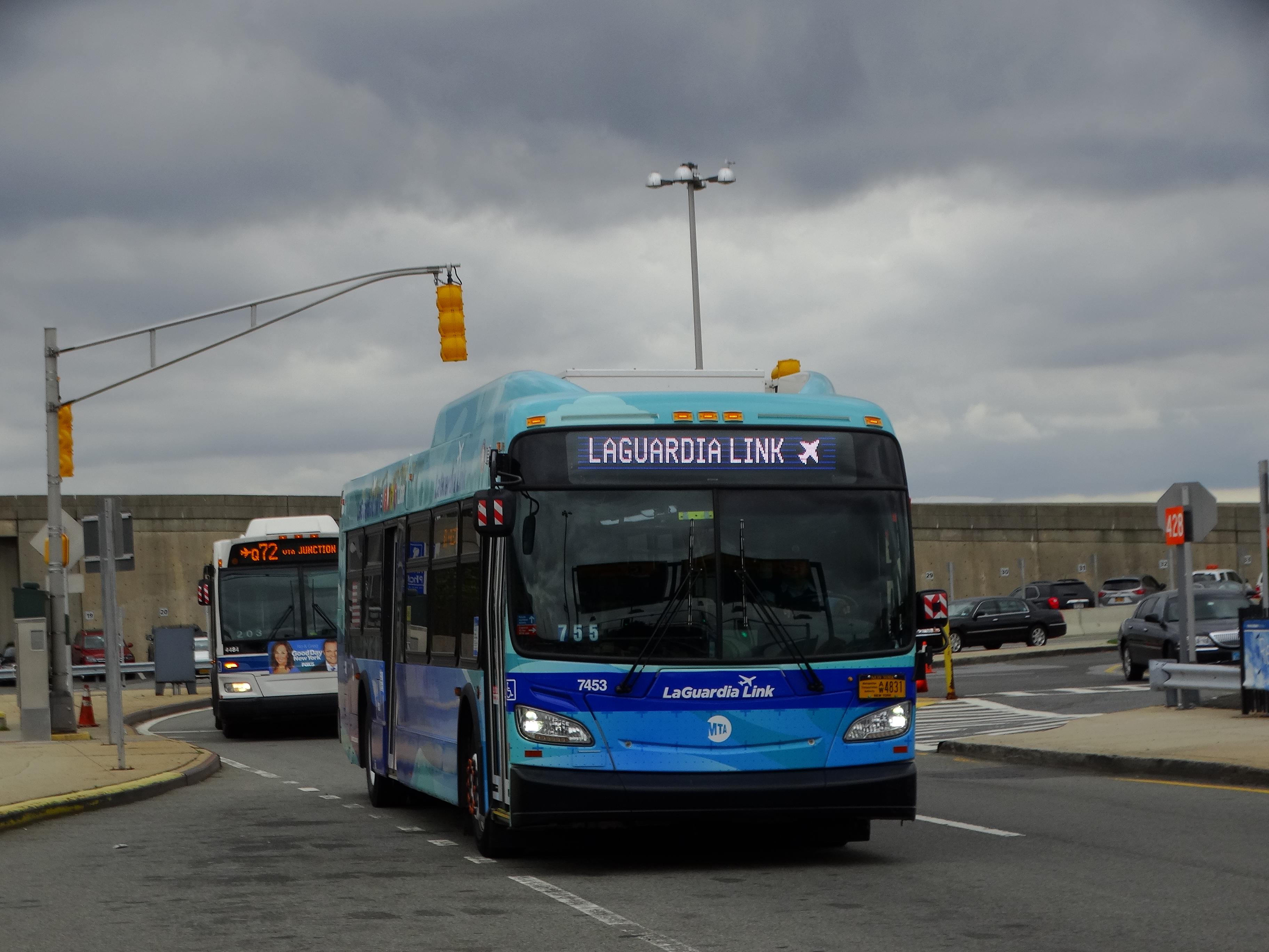 New Flyer Q70 SBS @ Terminal D